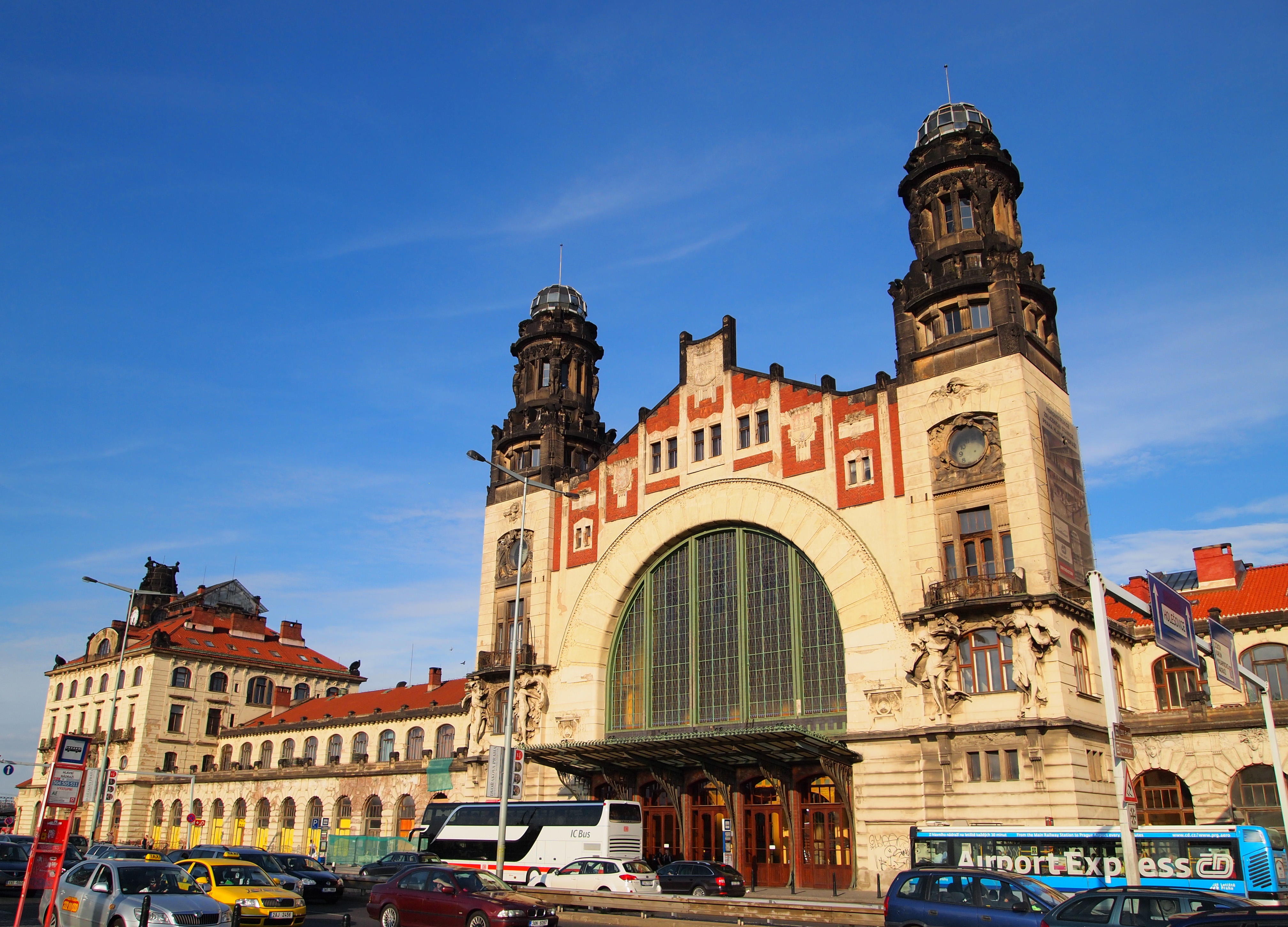 Main train station in Prague. This photograph was taken with an Olympus E-PL1